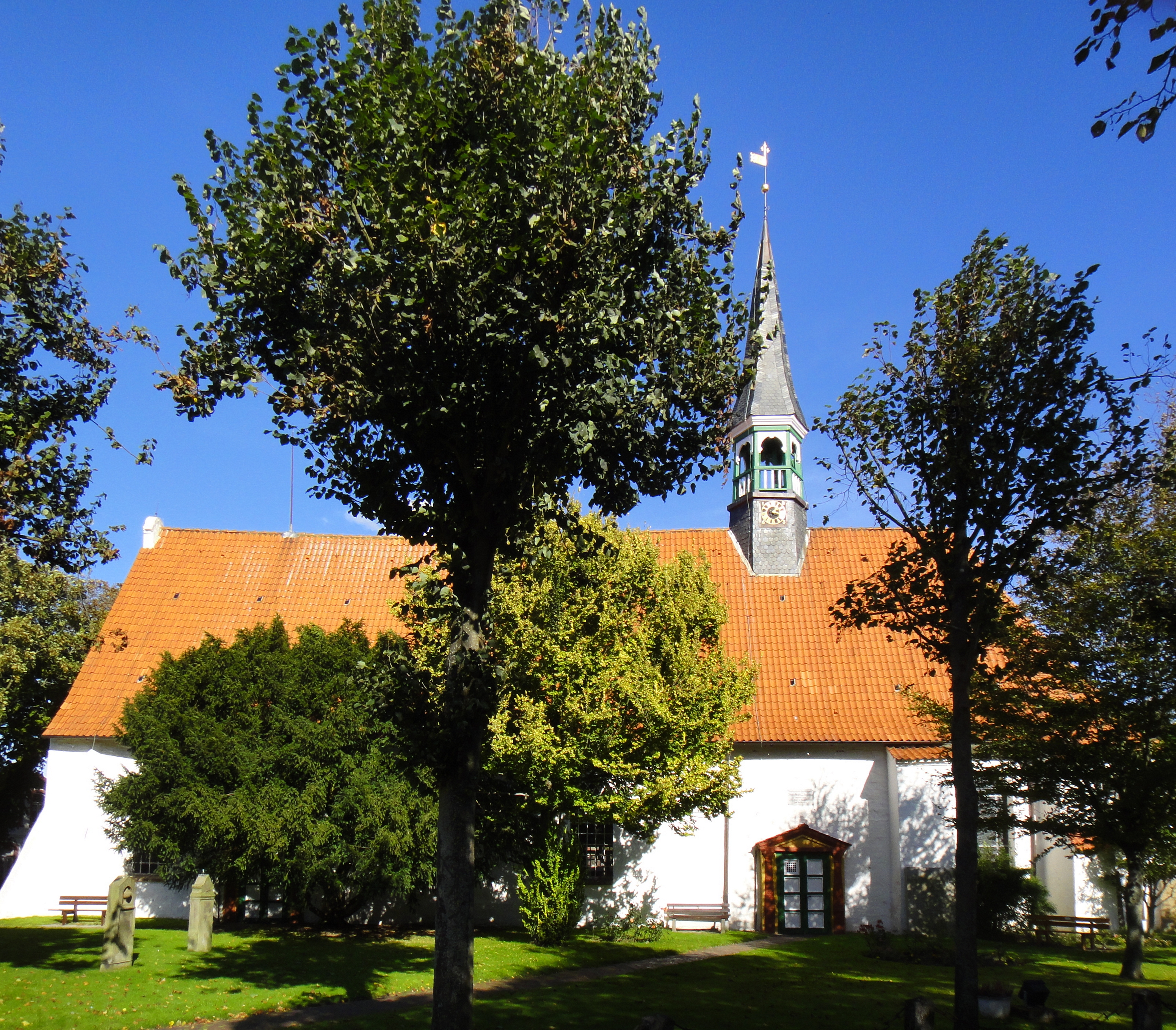 St Clemens church, Büsum, German North Sea Coast in autumn.